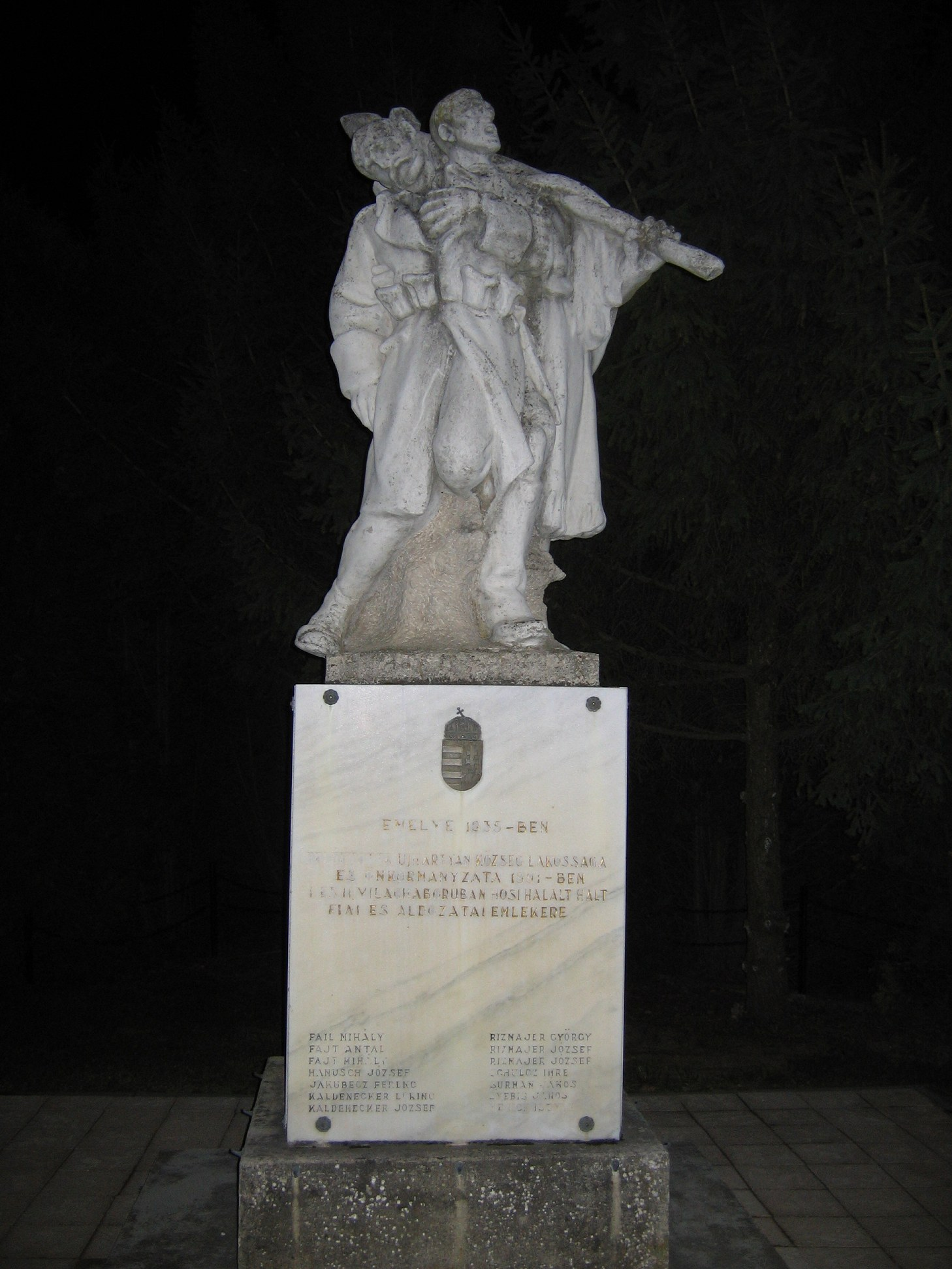 Újhartyán, Hungary, War memorial, created 1935